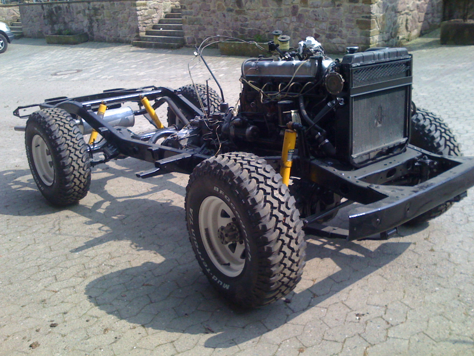 1978 Toyota Landcruiser FJ40 mit Originalfahrwerk und 2F-Motor